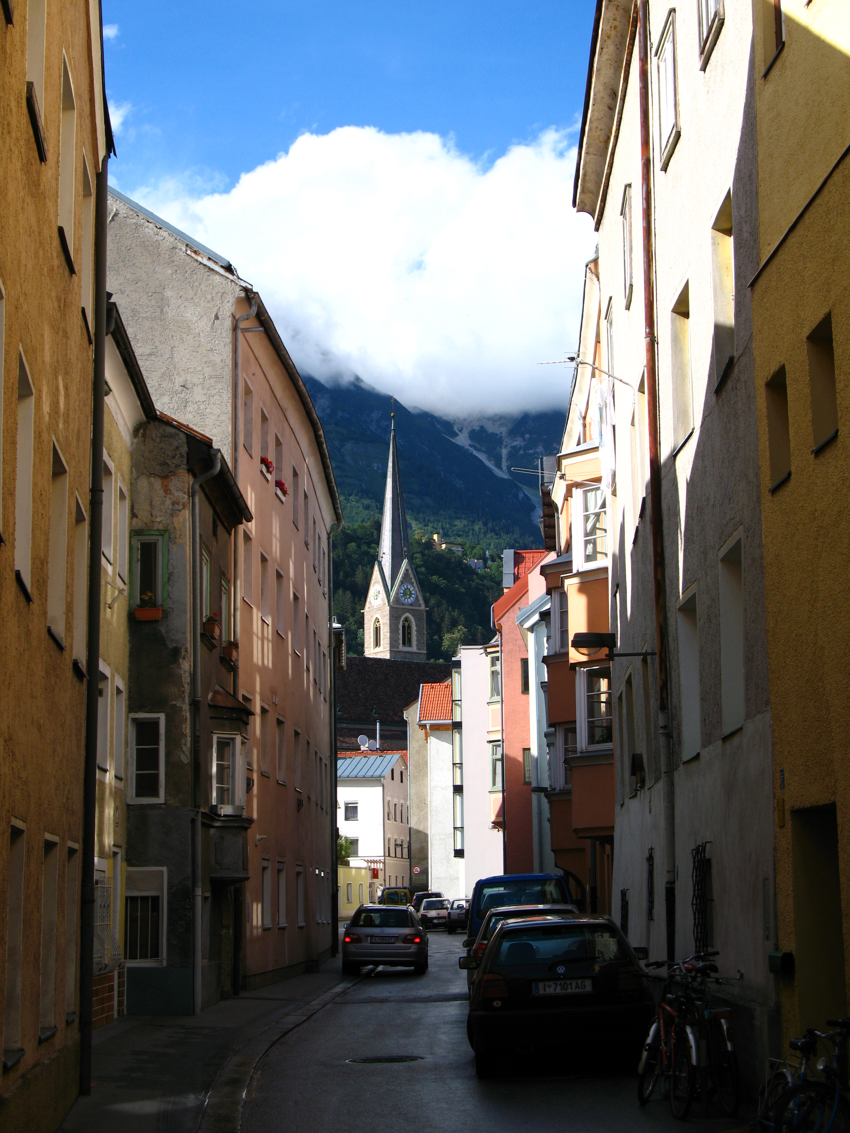 Saint Nicholas Street, Innsbruck, Austria